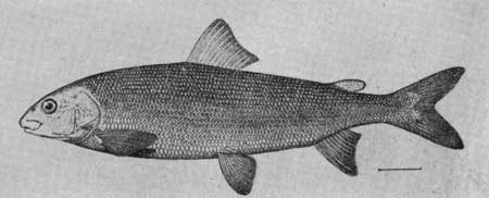 Adult mountain whitefish, Prosopium williamsoni